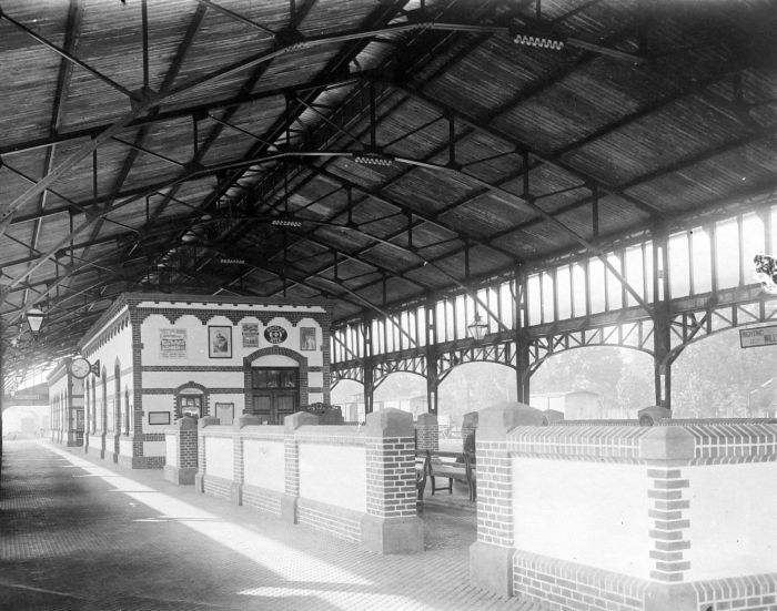 The Railwaystation in Kedung Jatti, Java